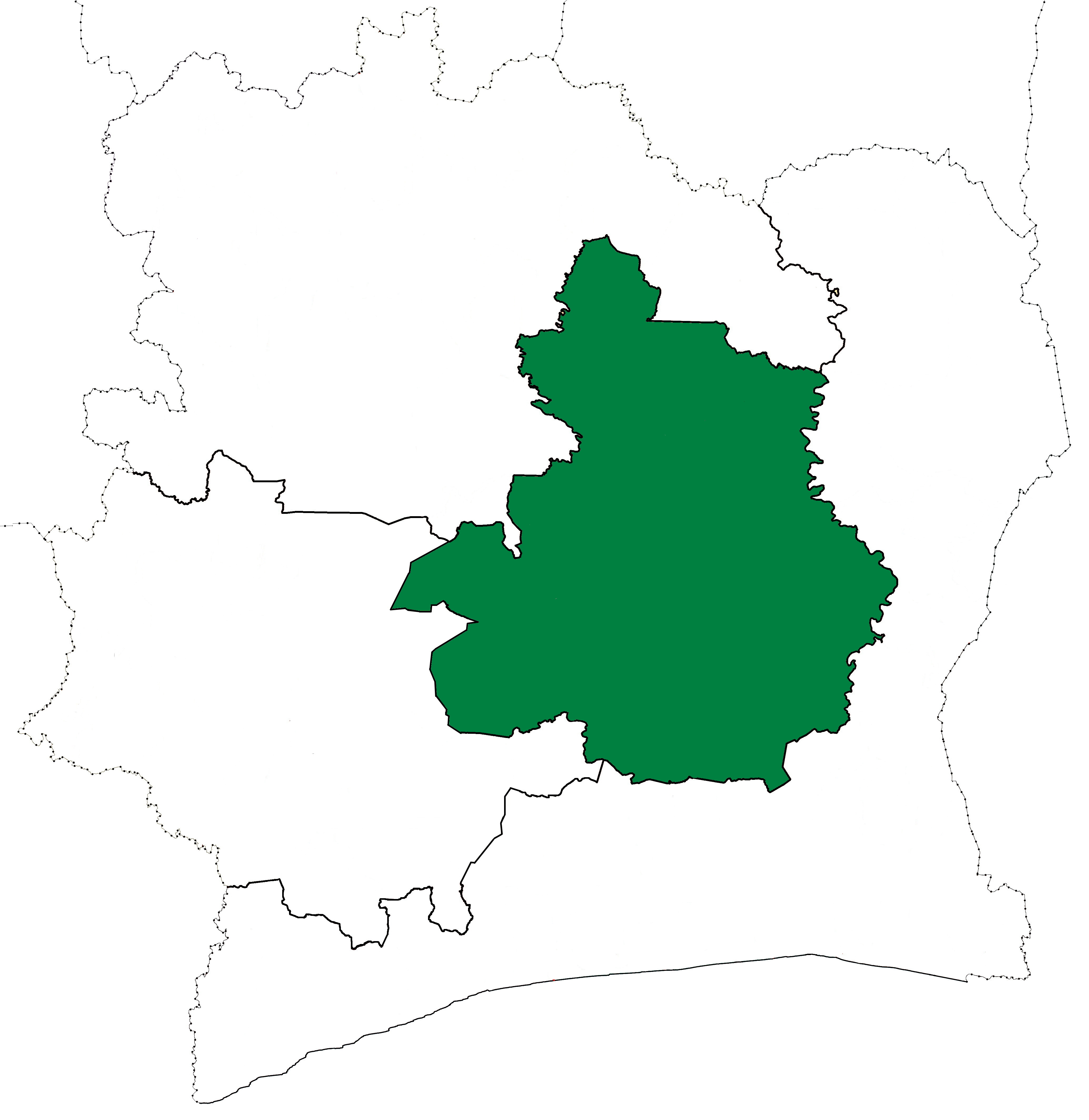 Locator map for Centre Department in Côte d'Ivoire (1961–63).